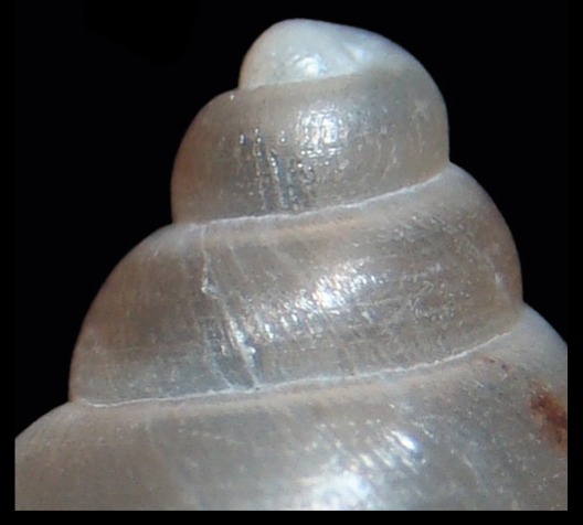 Photo of upper whorls of Bostryx fragilis showing fine, interrupted spiral lines and protoconch sculpture.